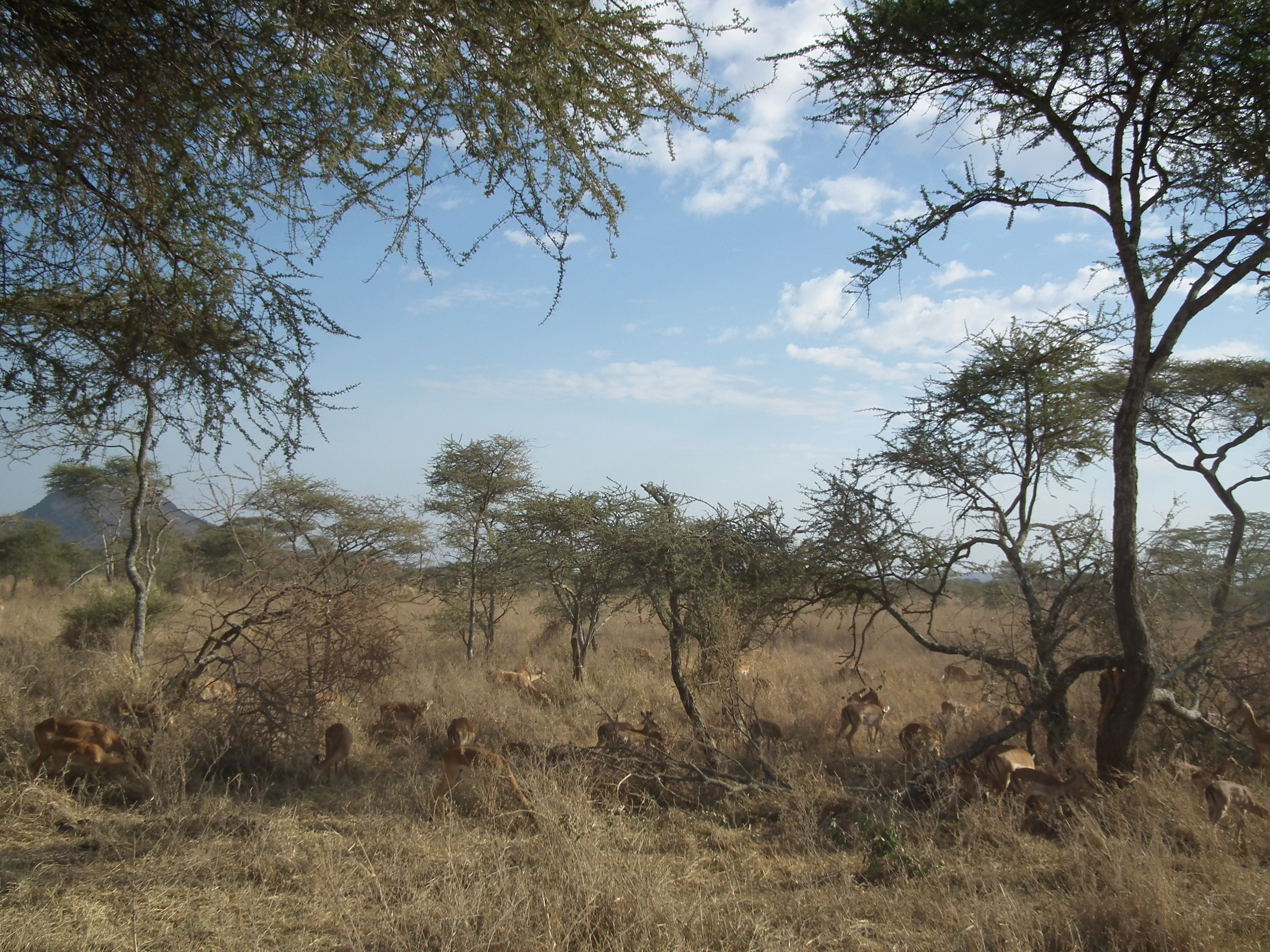 Impala, Aepyceros melampus, picture taken in Tanzania